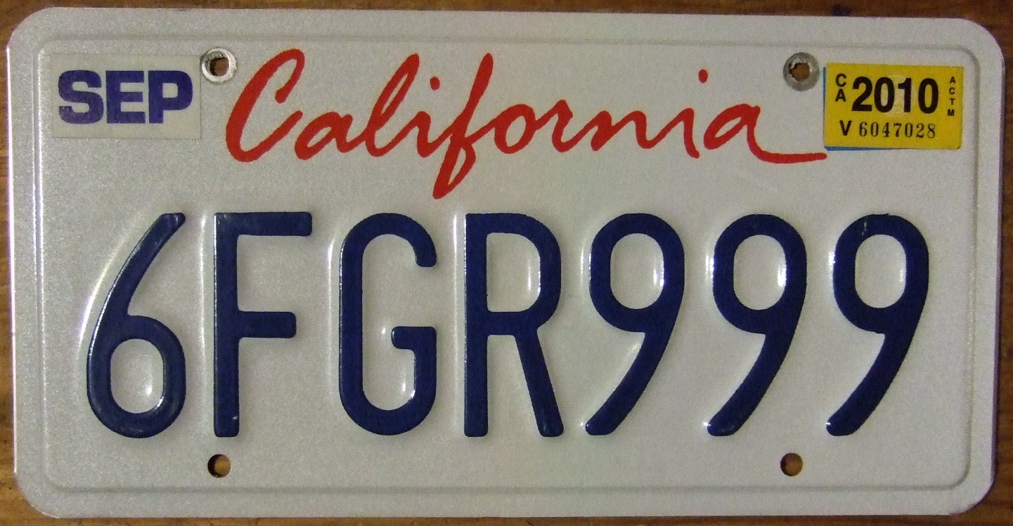 CALIFORNIA 2010 ---LICENSE PLATE, SCRIPT BASE PLATE